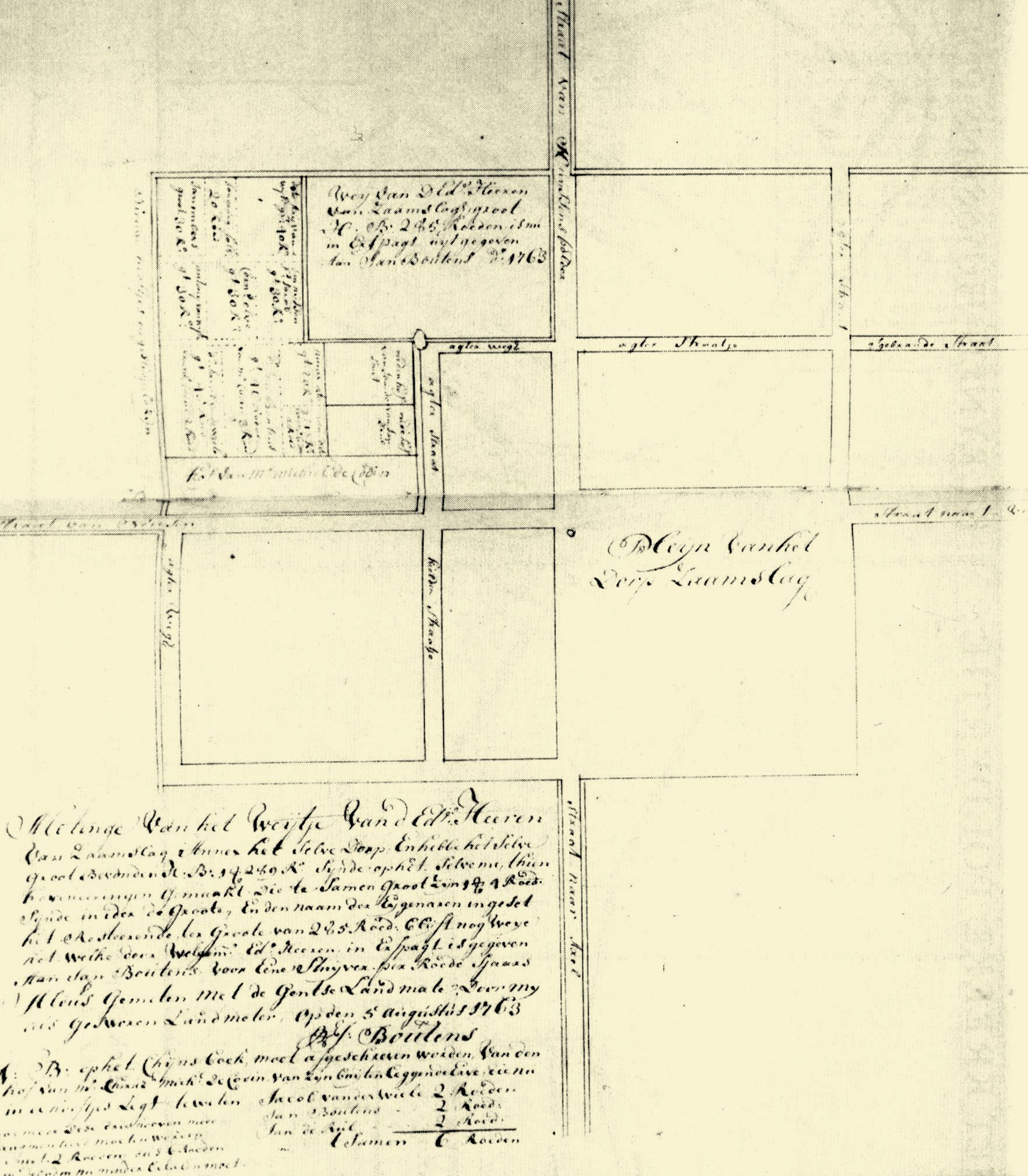 Drawing of the village of Zaamslag in 1776.